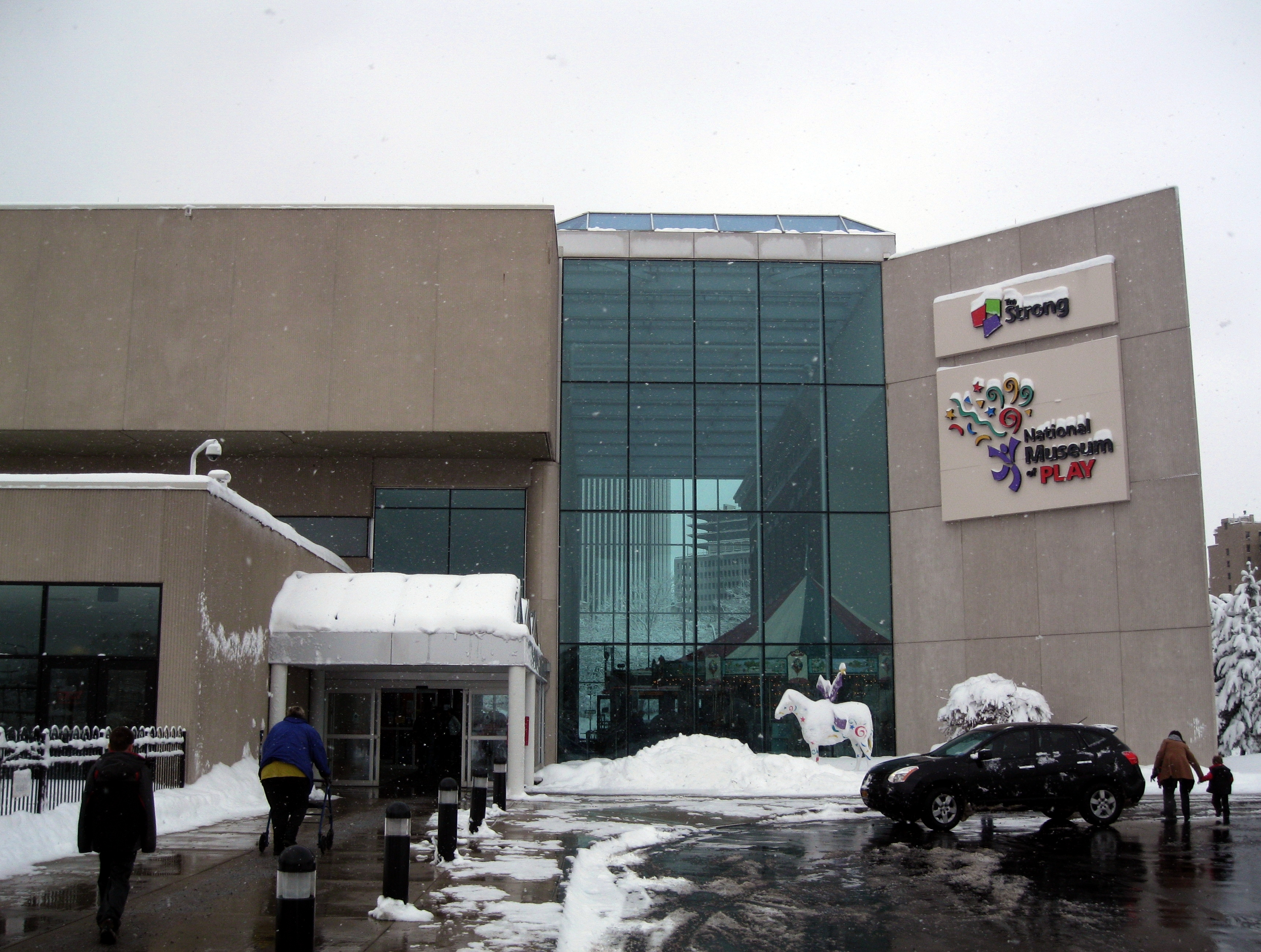 The Strong National Museum of Play in Rochester, New York, USA